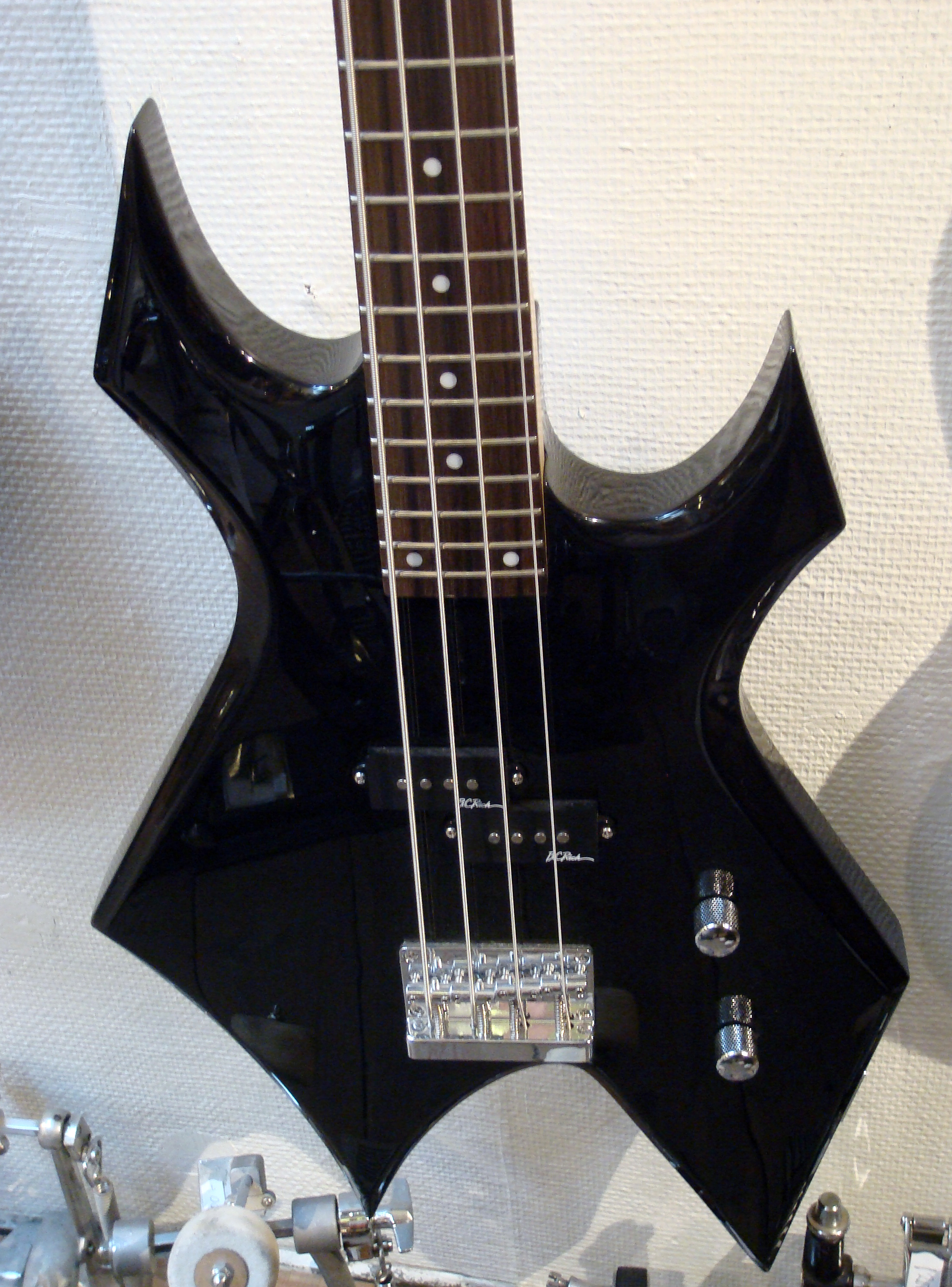 B.C. Rich Warlock Bronze Series bass guitar, closeup of the Warlock-shaped body